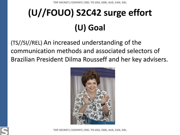 S2C42 surge effort: spy on Dilma Rousseff and her advisors